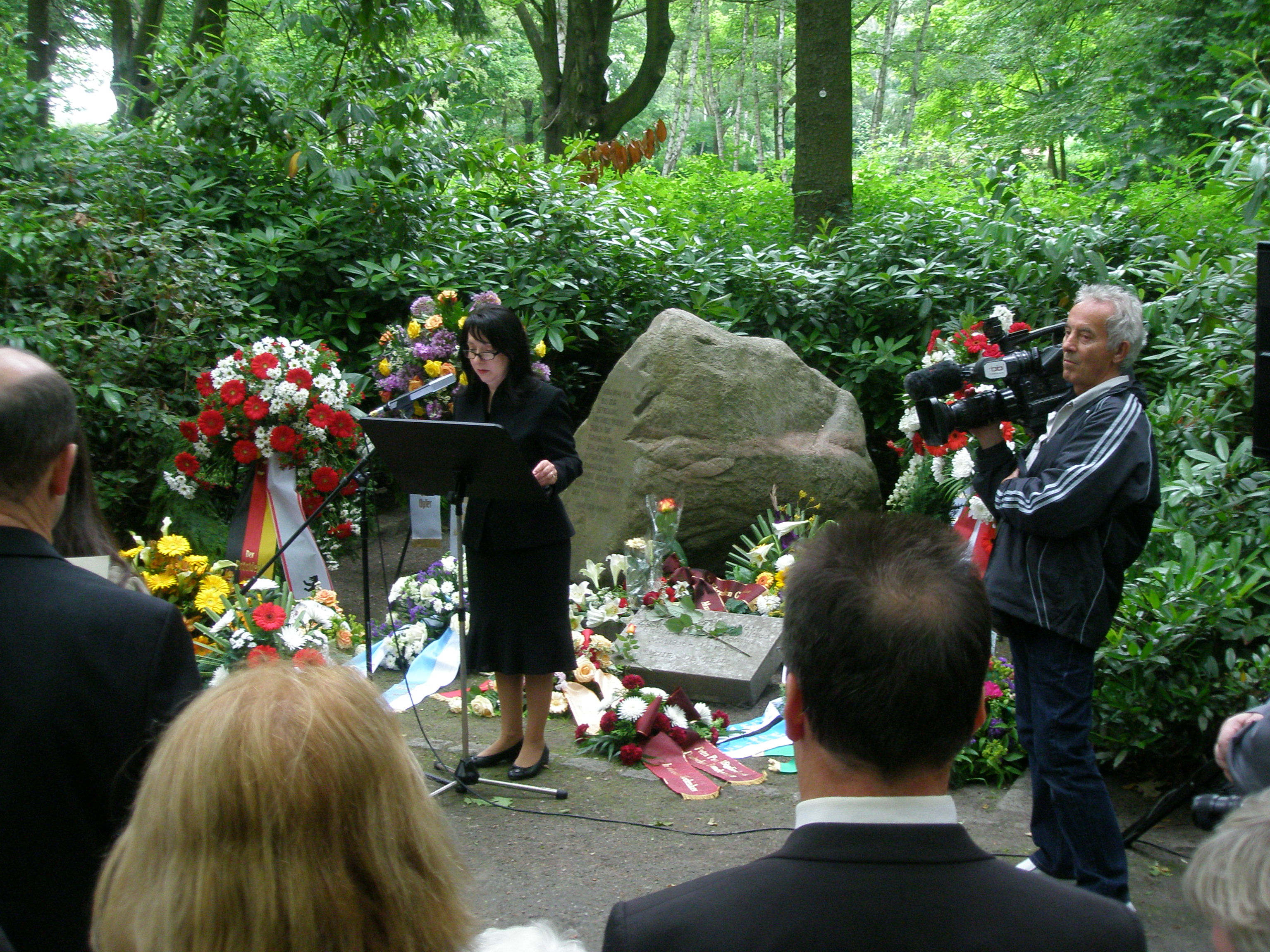 Petra Rosenberg, head of the Association of German Sinti and Roma Berlin Brandenburg, holds a short speech at the Sinti and Roma memorial stone on the Marzahn cemetery.